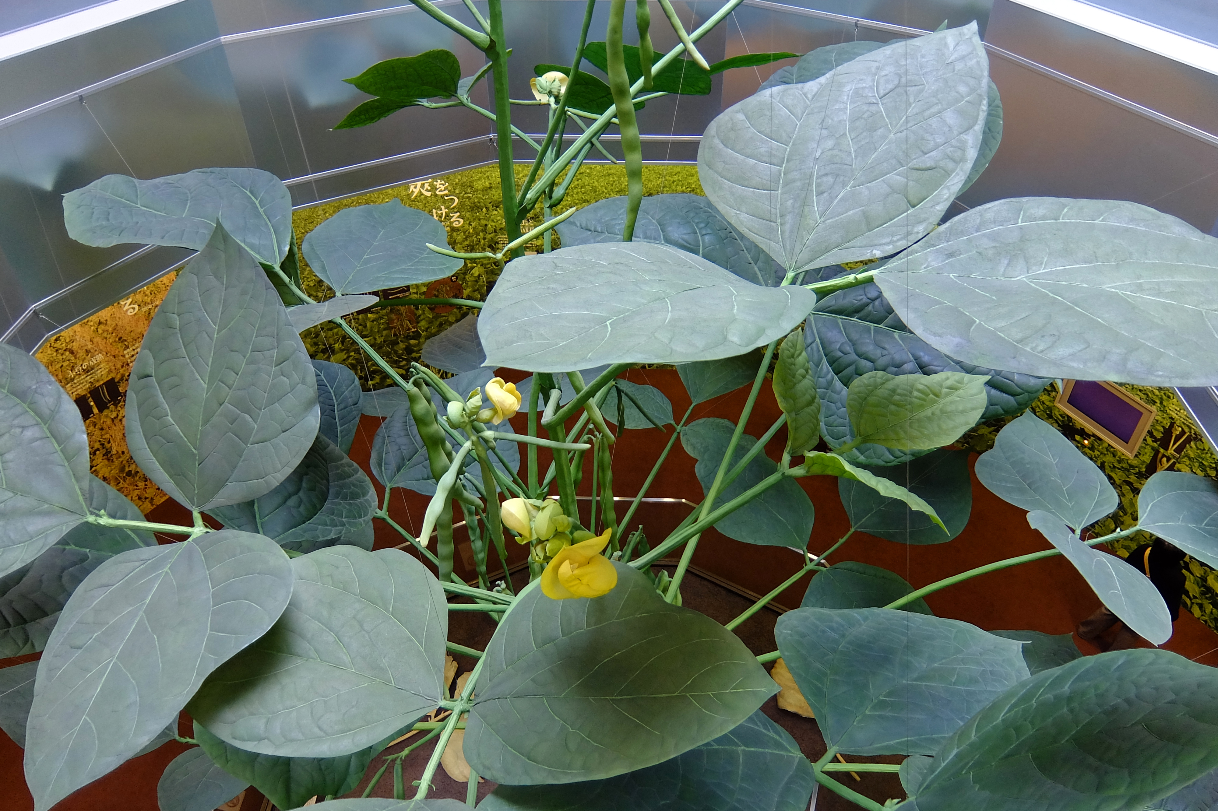 Azuki Museum in Himeji, Hyogo prefecture, Japan.